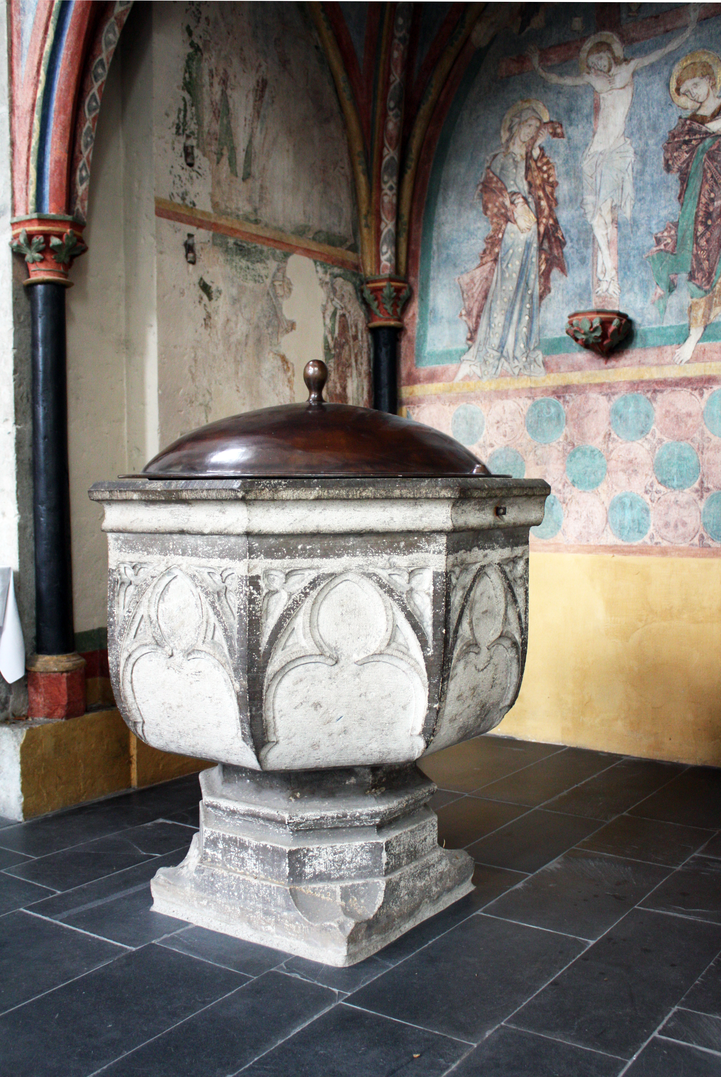 Gothic baptismal font in Saint Kunibert, a Catholic Parish Church of Cologne